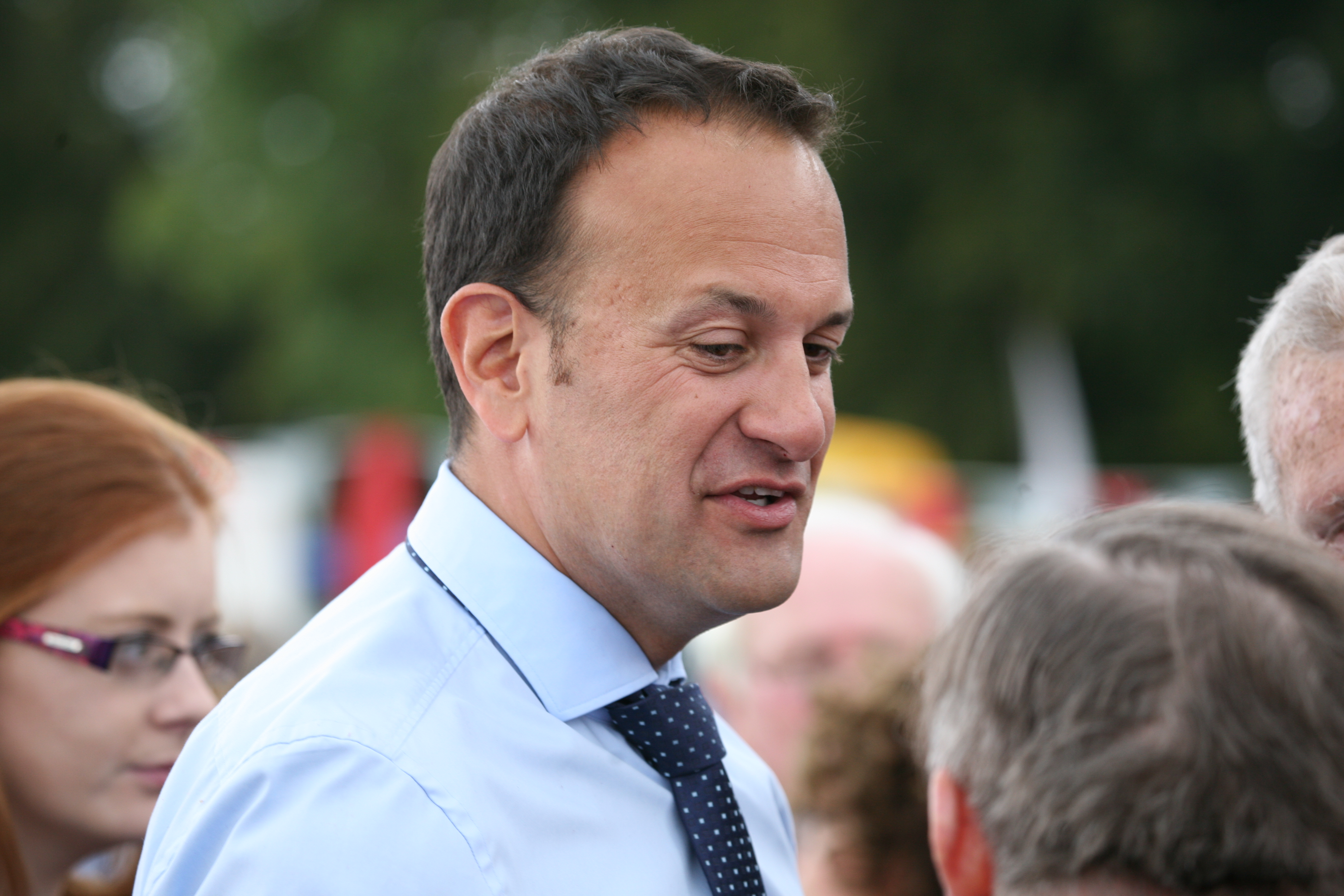 Iverk Show 2017